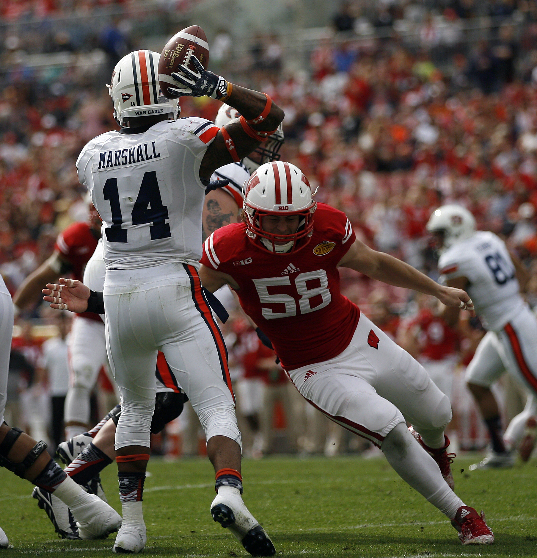 Nicholas Deshawn Marshall Sr. (born June 30, 1992) is an American football player, who played college football at Auburn as a quarterback and was the Tigers' starter from 2013 to 2014. The 2015 Outback Bowl was an American college football bowl game that was played on 1 January 2015 at Raymond James Stadium in Tampa, Florida.